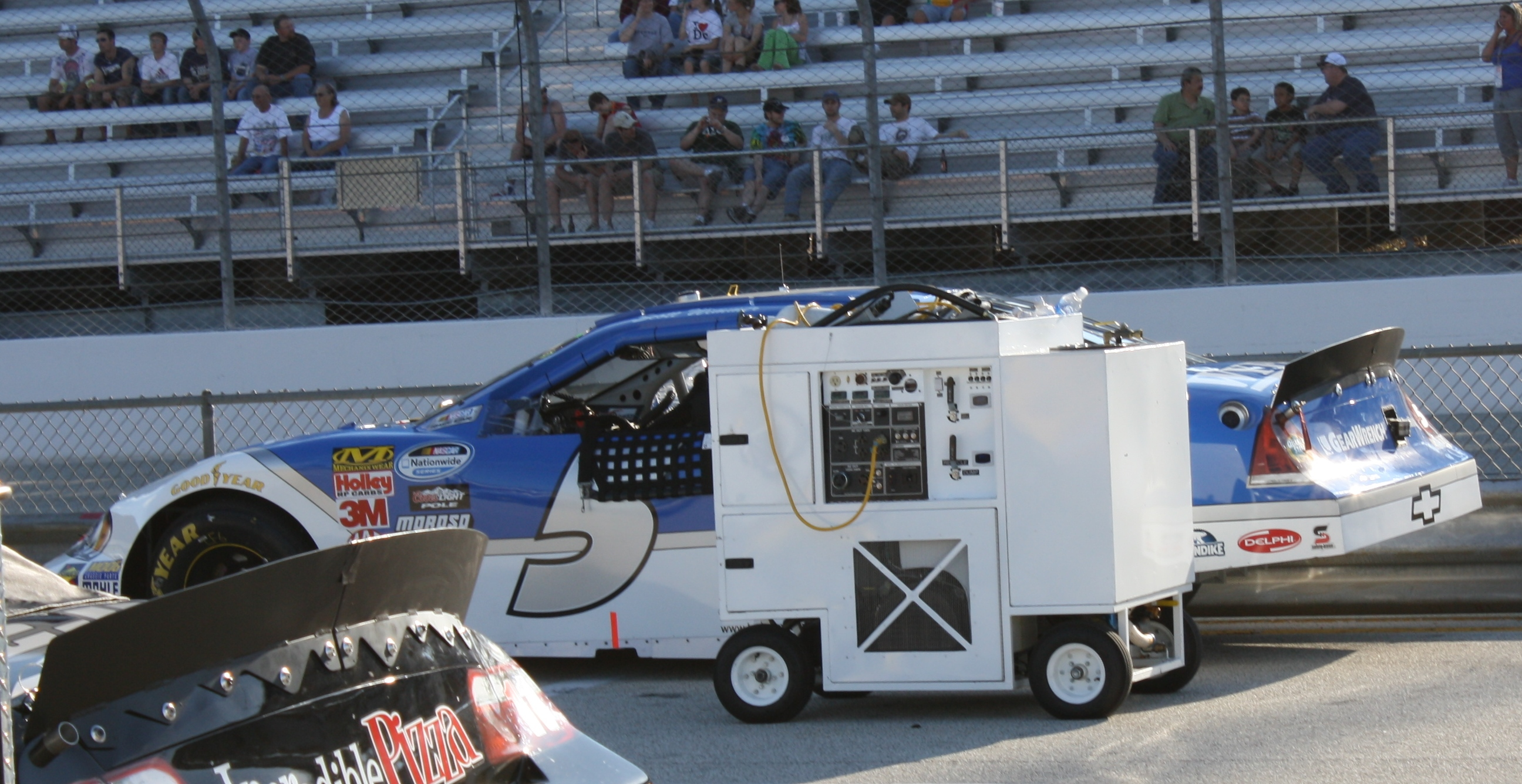 NASCAR driver Scott Wimmers Chevrolet at the 2009 Northern 250 Nationwide Series race at the Milwaukee Mile.